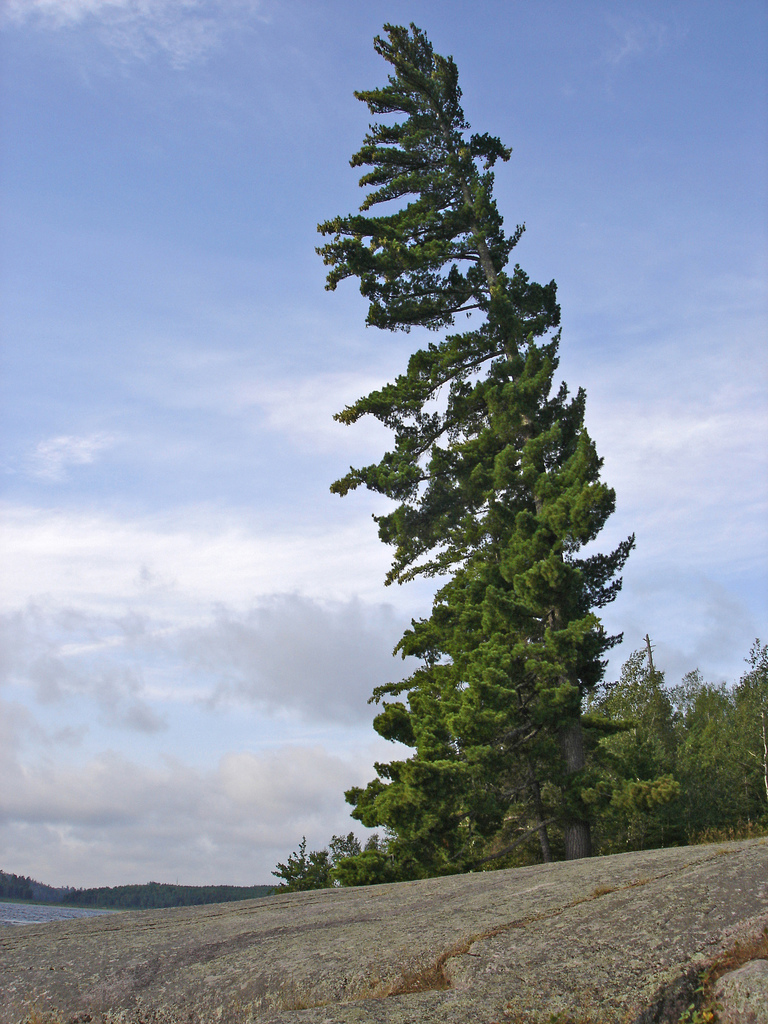 Pinus strobus, Nina Moose Lake, St Louis County, Minnesota, 48°9'54"N 92°5'15"W, 385m altitude. Within the Boundary Waters Canoe Area Wilderness.